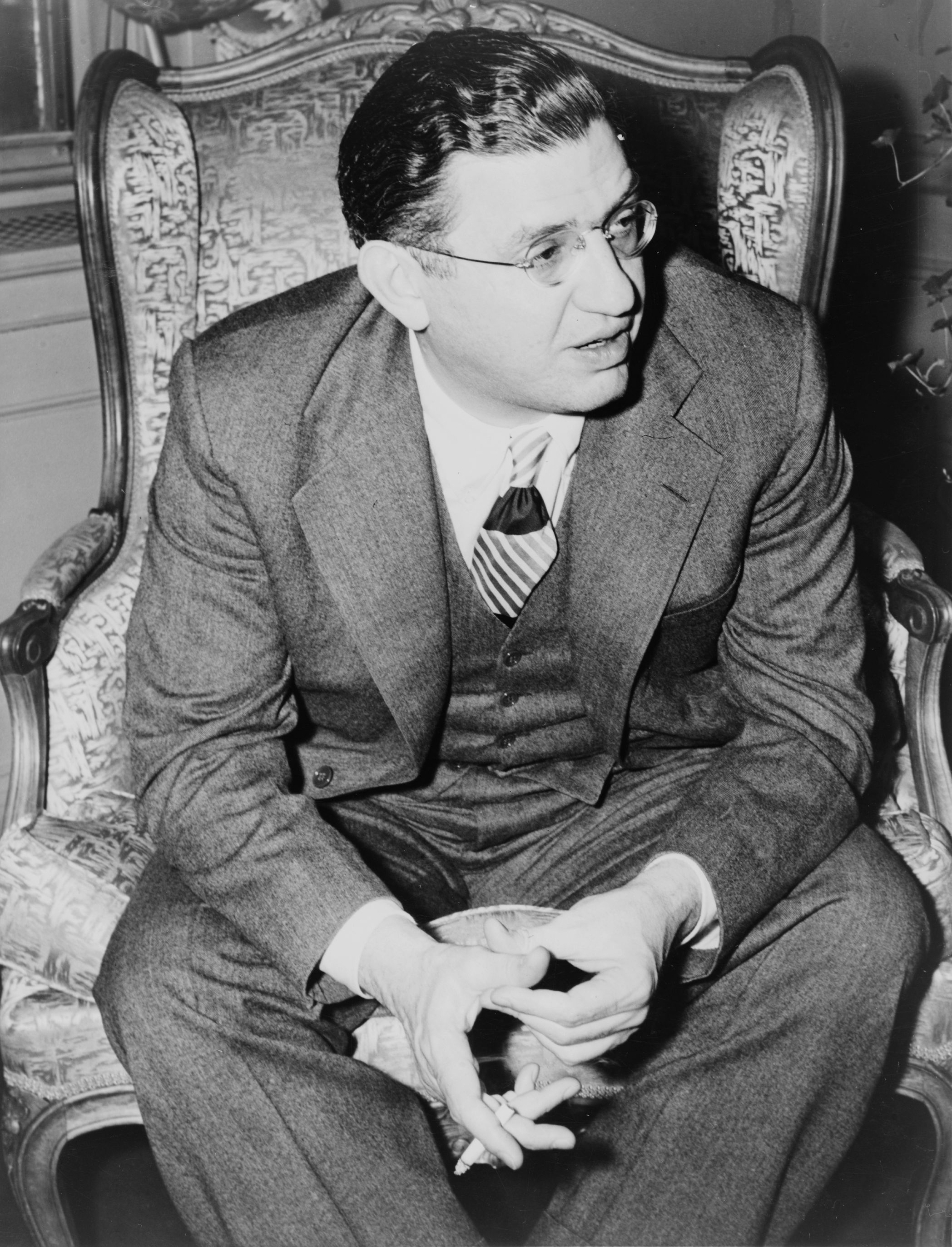 David O. Selznick, three-quarter length portrait, seated, facing right / World-Telegram photo by Edward Lynch.